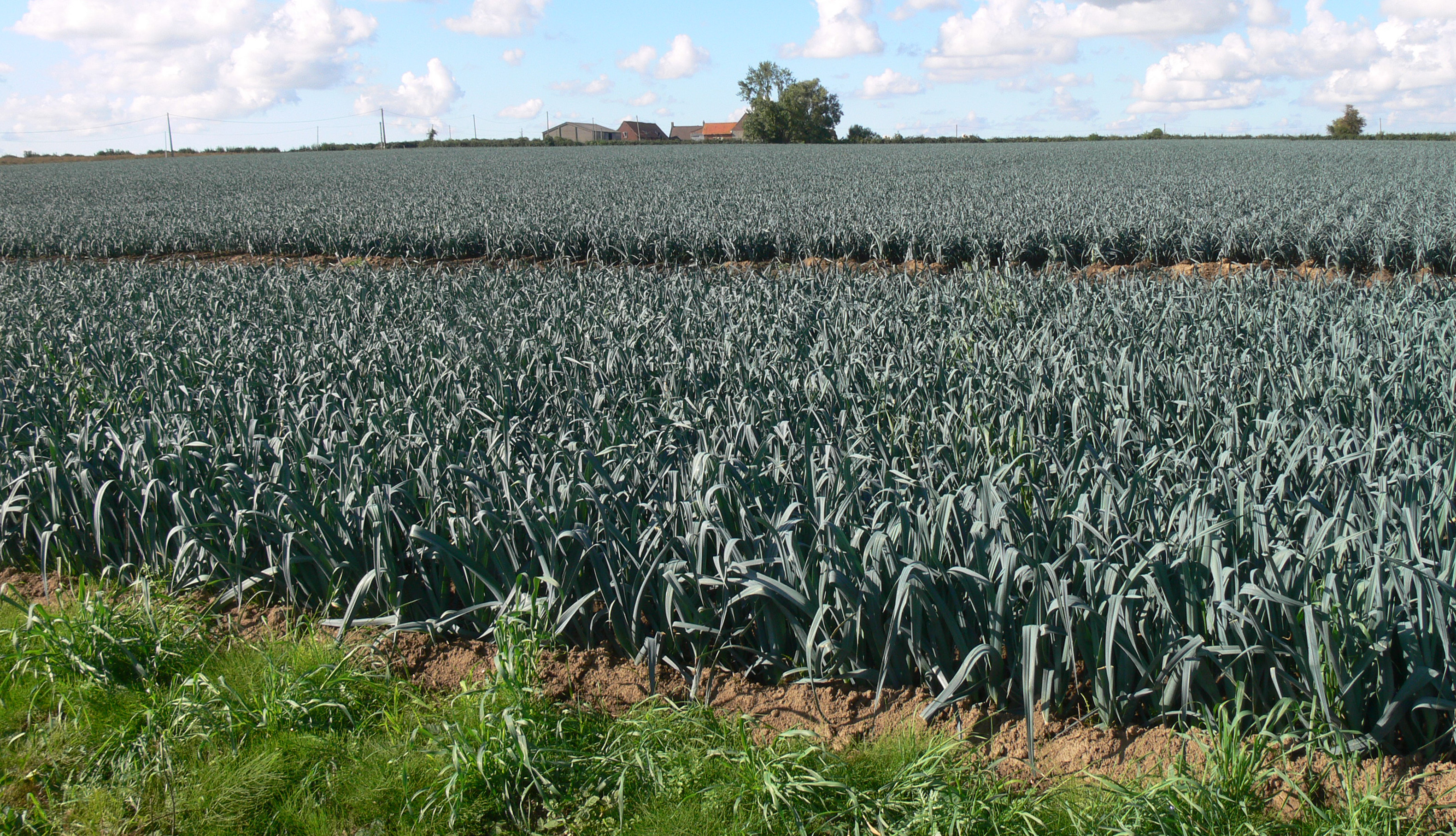 Industrial and intensive Culture of leeks in French Flanders (Hondeghem ?) in northern France